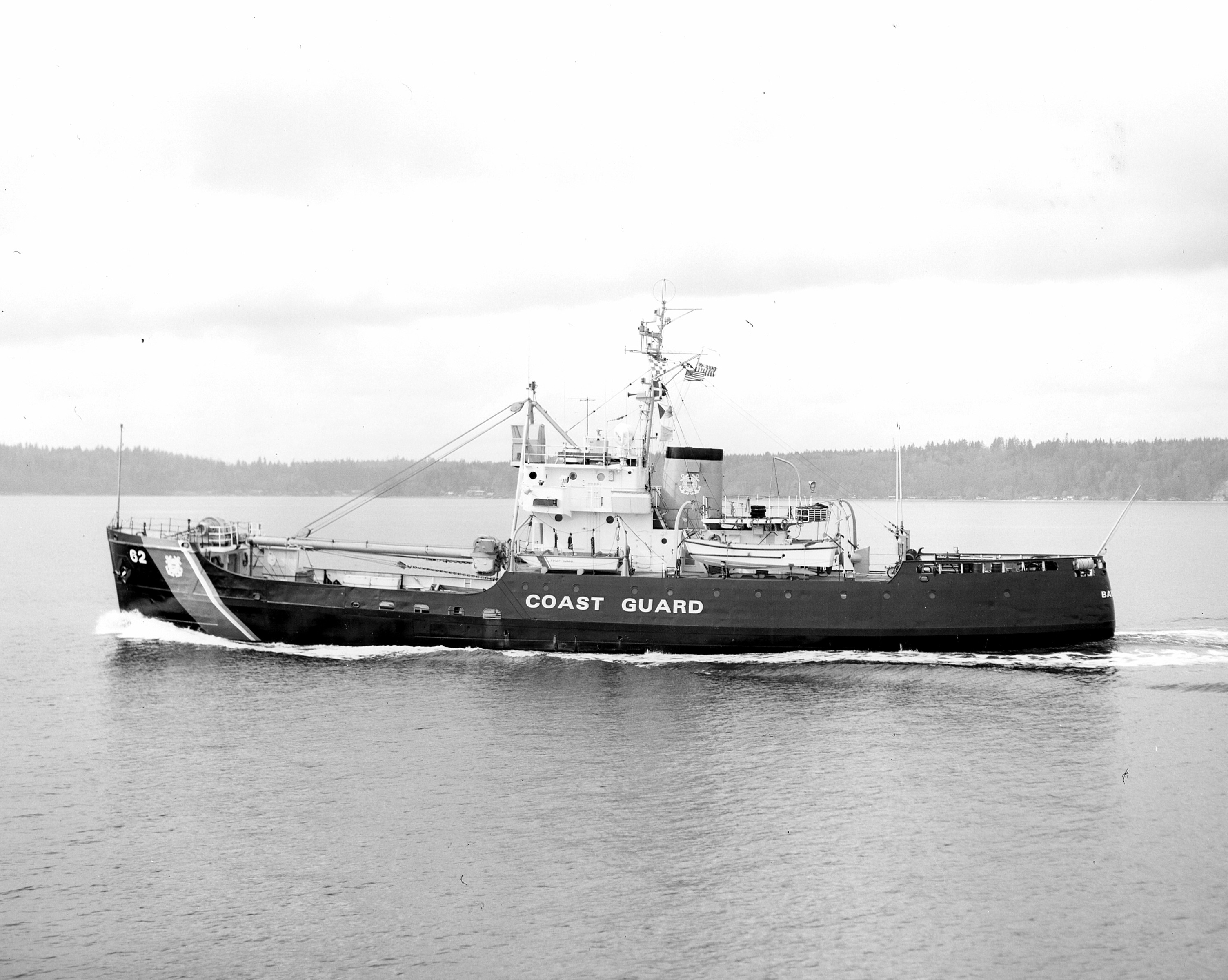 USCGC Balsam off Alaska in 1973